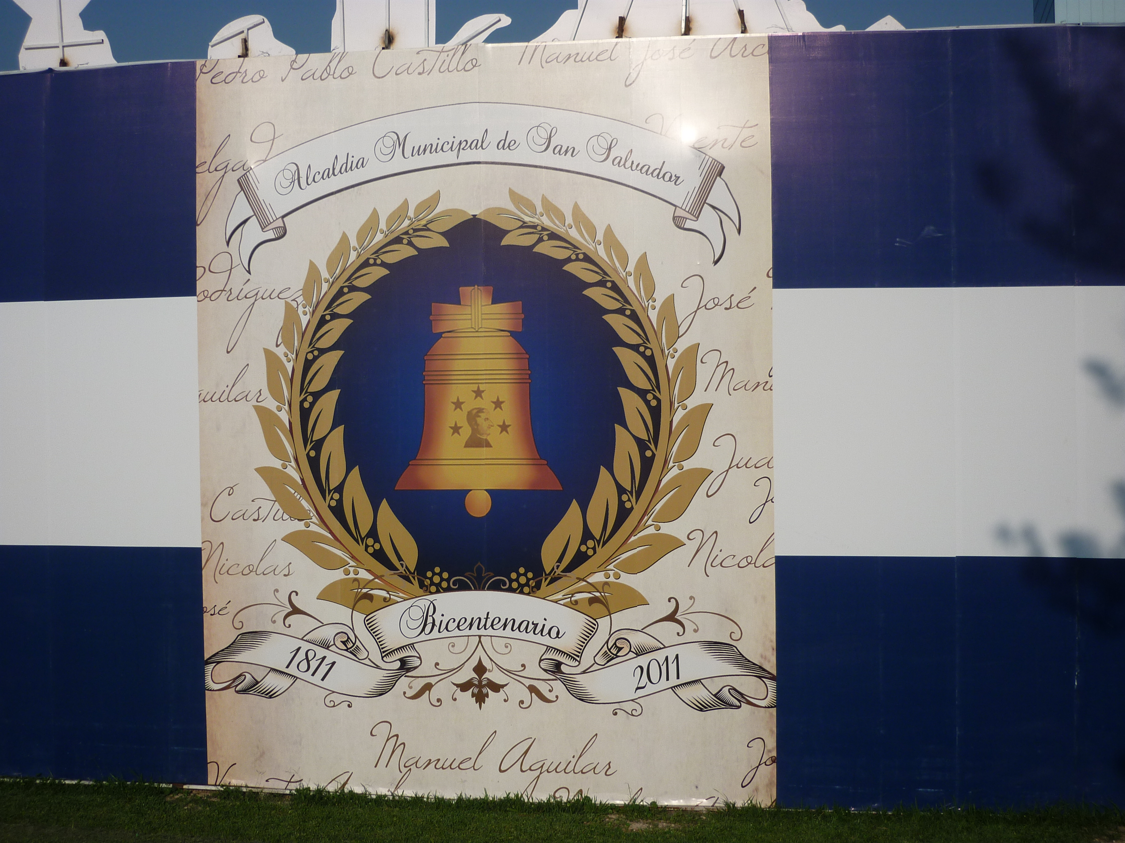 Image used to identify the Bicentennial, placed in a square in San Salvador.